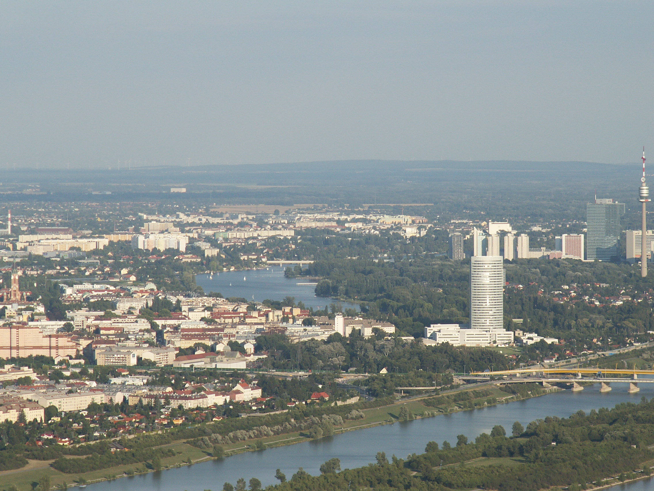 Austria, Vienna, Danube